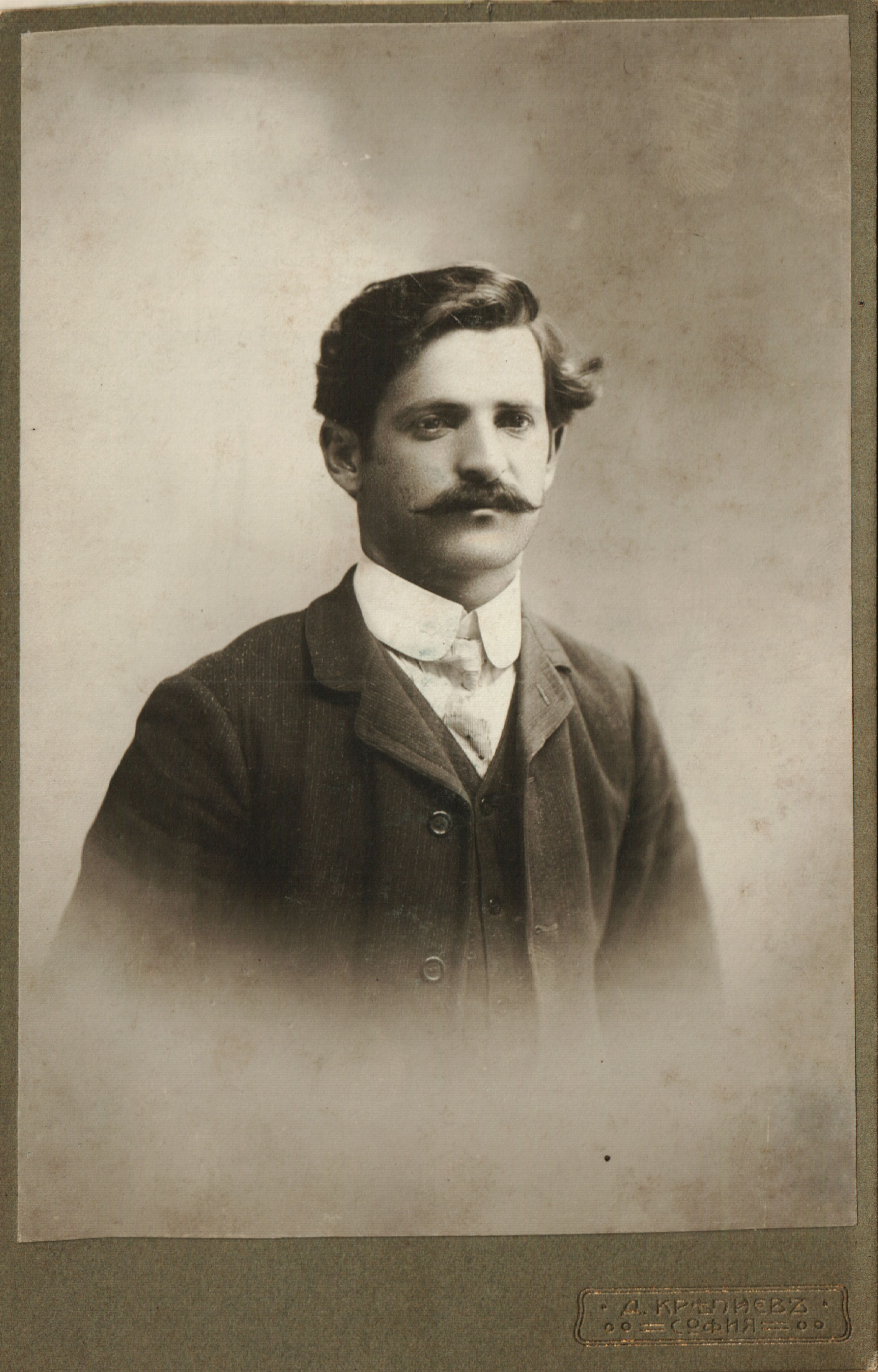 Konstantin Samardzhiev Dzhemoto